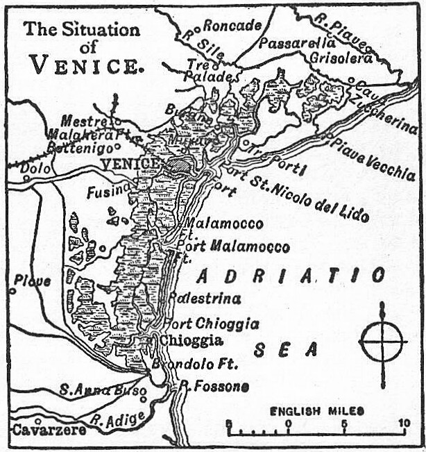 Situation of Venice